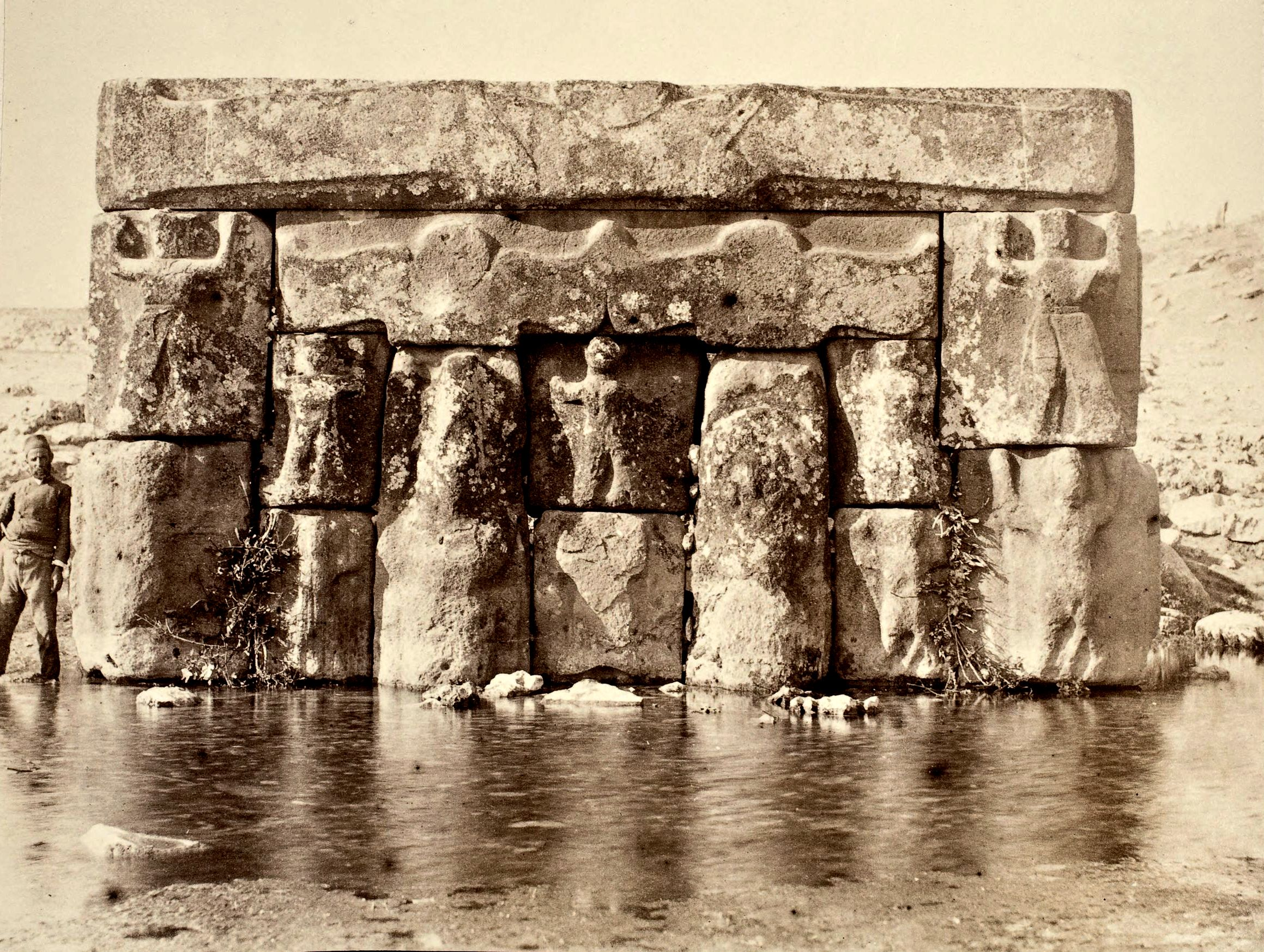 Hittite monument beside spring of Eflatun Punar in Lycaonia. from: Robert G. Ousterhout: John Henry Haynes - A Photographer and Archaeologist in the Ottoman Empire 1881–1900 S. 89 ISBN 978-605-62429-0-8